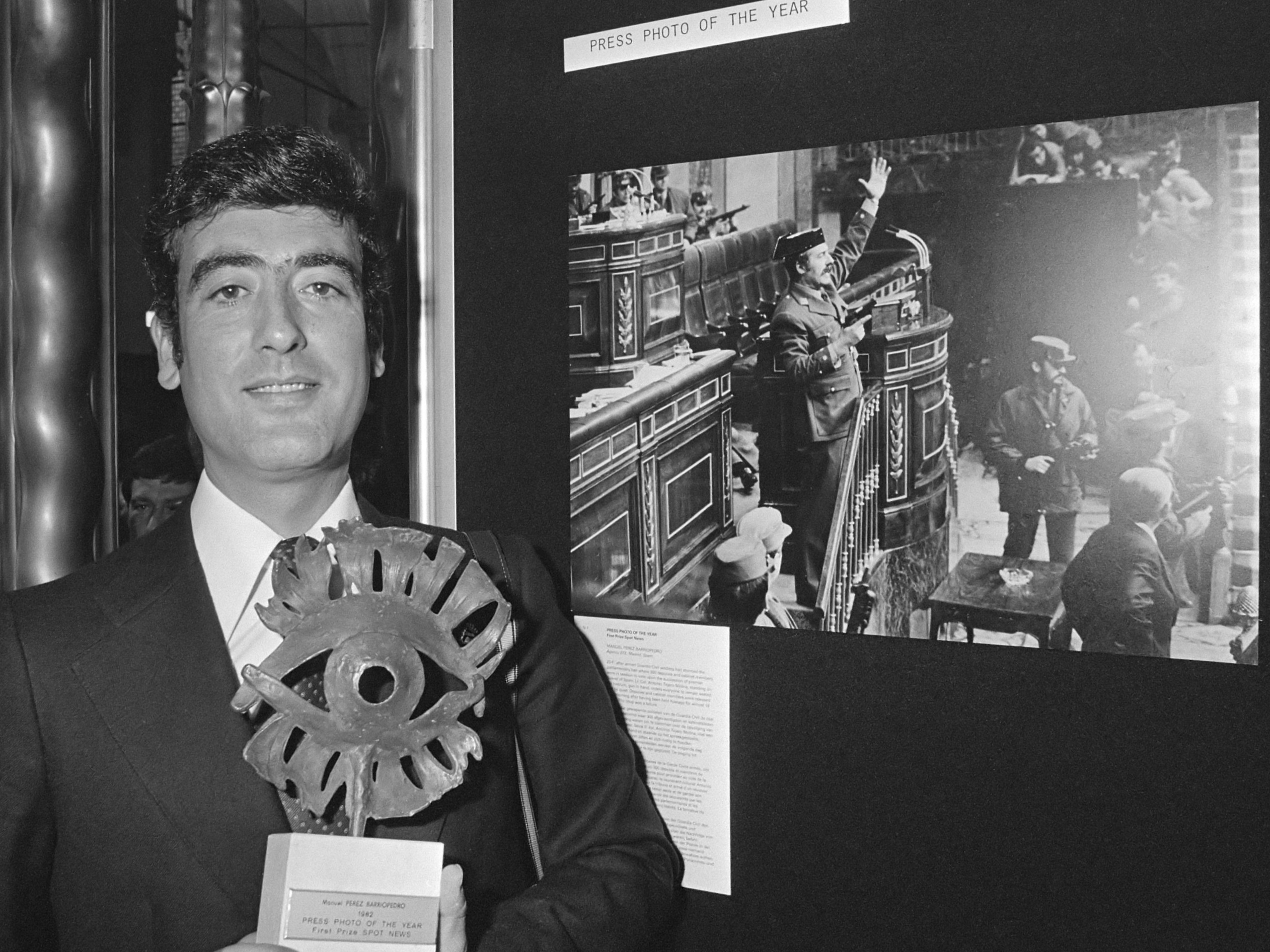 Prins Bernhard reikt hoofdprijs World Press Photo 1982 uit aan Manuel Perez Barriopedro , van de mislukte staatsgreep in Spanje 7 april 1982